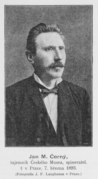 Portrait of Jan M. Černý (1839-1893), Czech journalist, writer and politician.